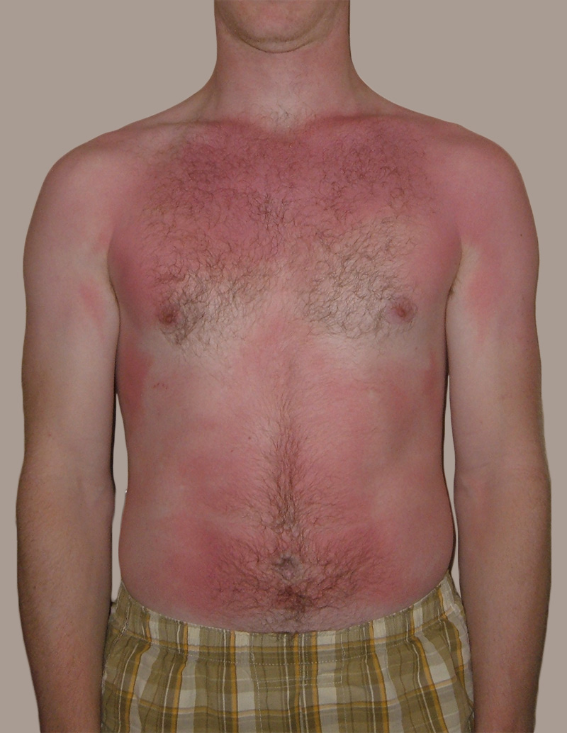 A moderate sunburn sustained over the course of four hours spent in the sun.